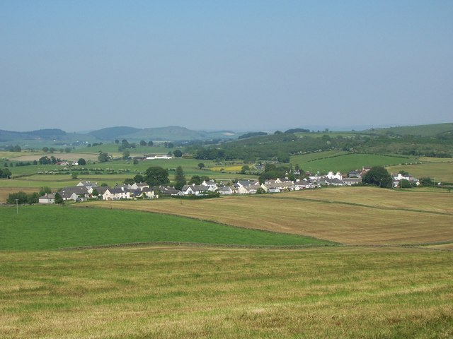 Crocketford Village. This photo was taken not far from the top of Crocketford Hill.